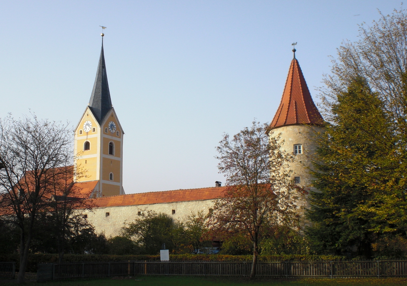 Berching, town parish church Mariä Himmelfahrt and town wall